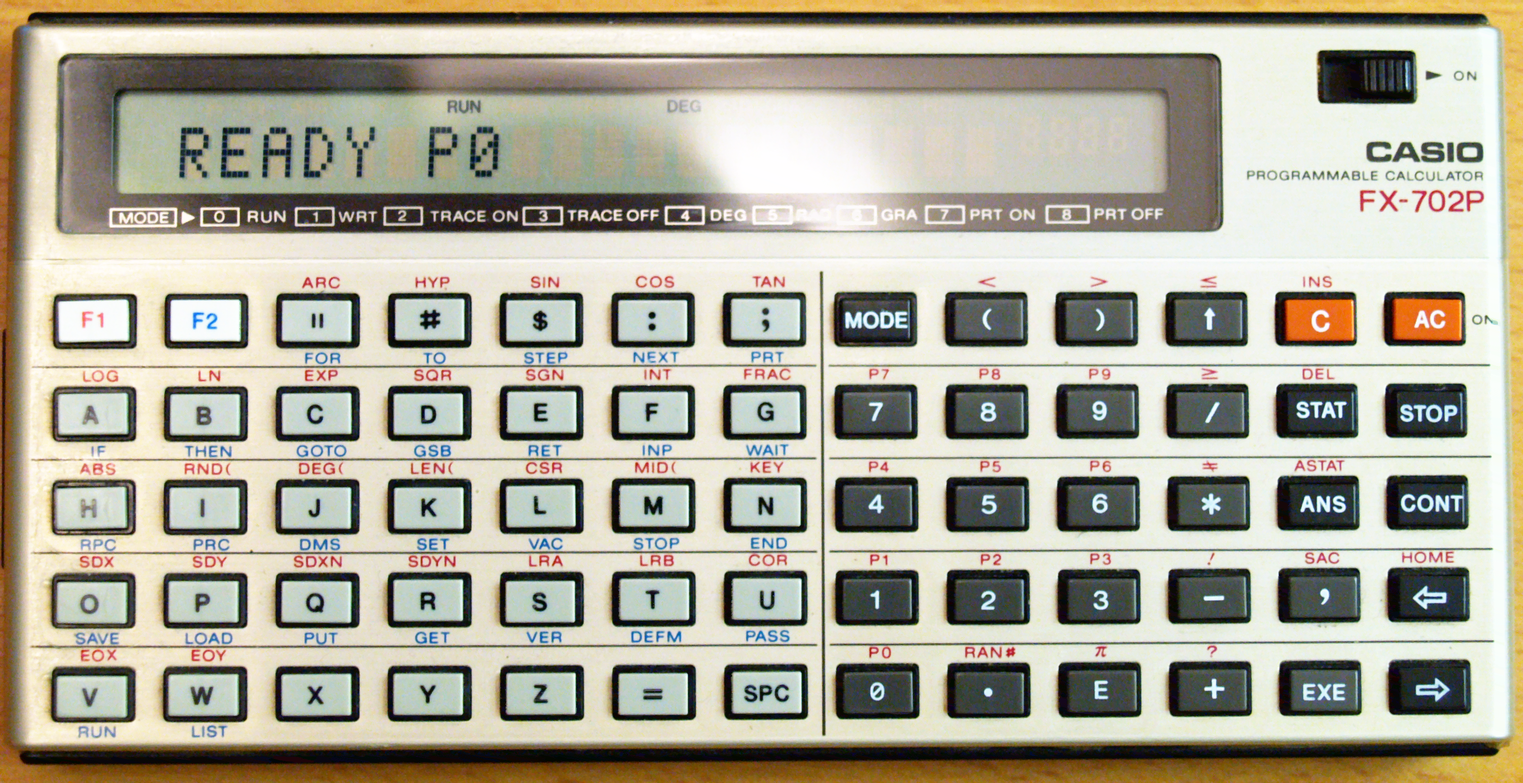 Casio FX-702P Programmable Calculator